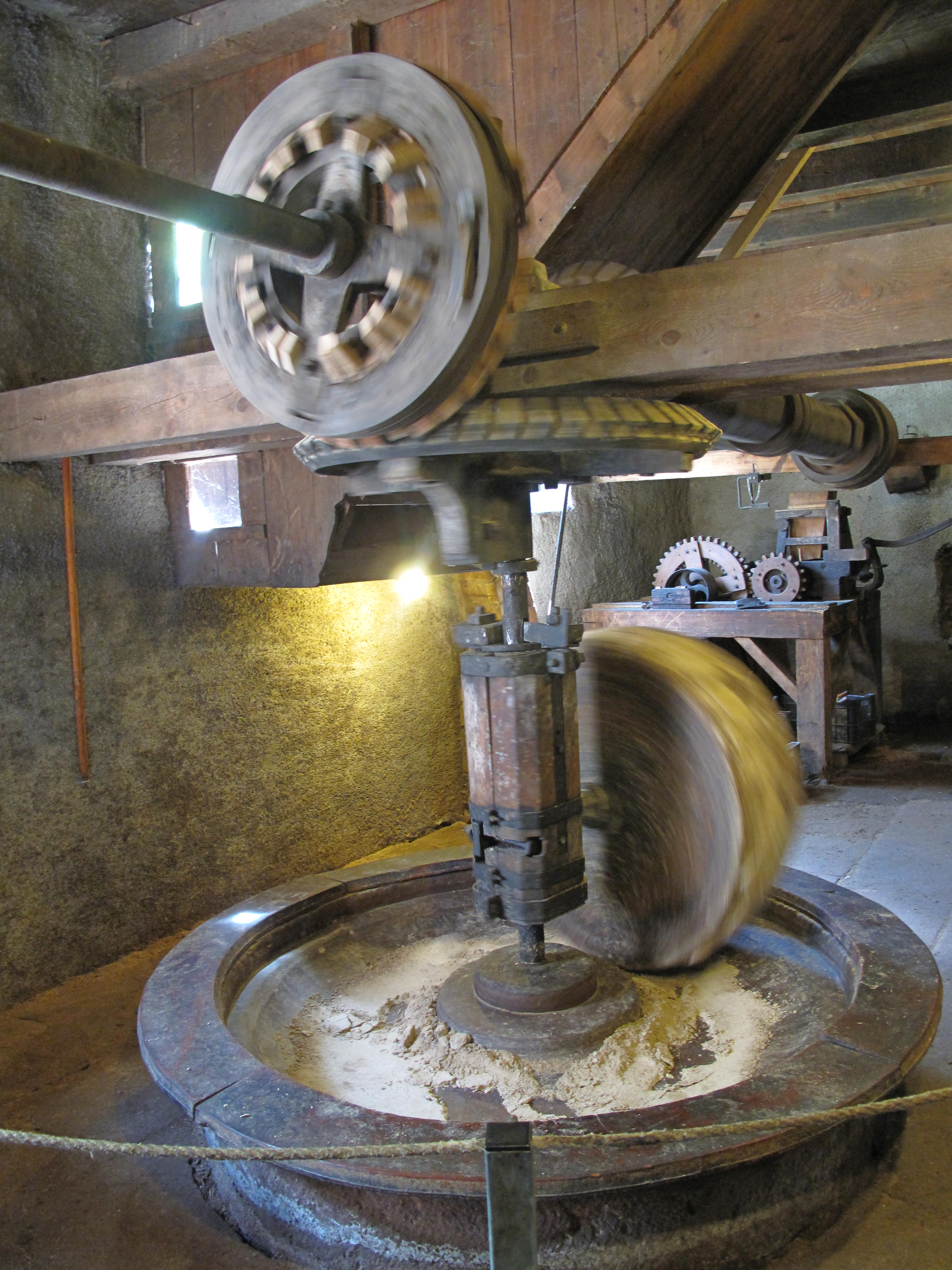 Cog wheels and millstone of the mill of Storckensohn (Haut-Rhin, France).